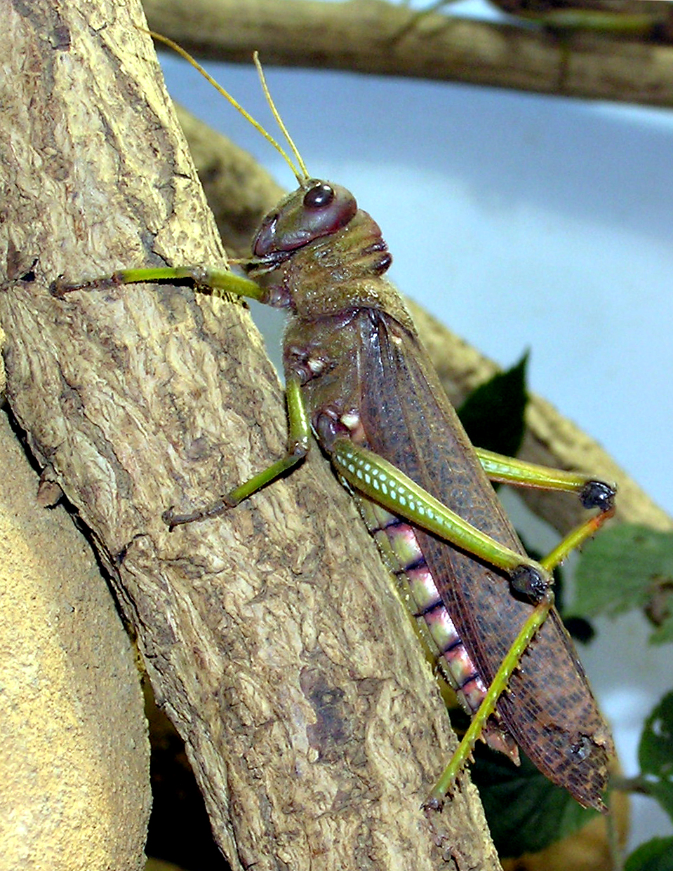 Giant South American Grasshopper Tropidacris violaceus (also called Violet-winged Grasshopper) at Bristol Zoo, Bristol, England. One of the largest grasshopper species in the world, from the open forests of south and central America. The eggs take one year to hatch. The young are red and black which might warn predators that they do not taste nice!